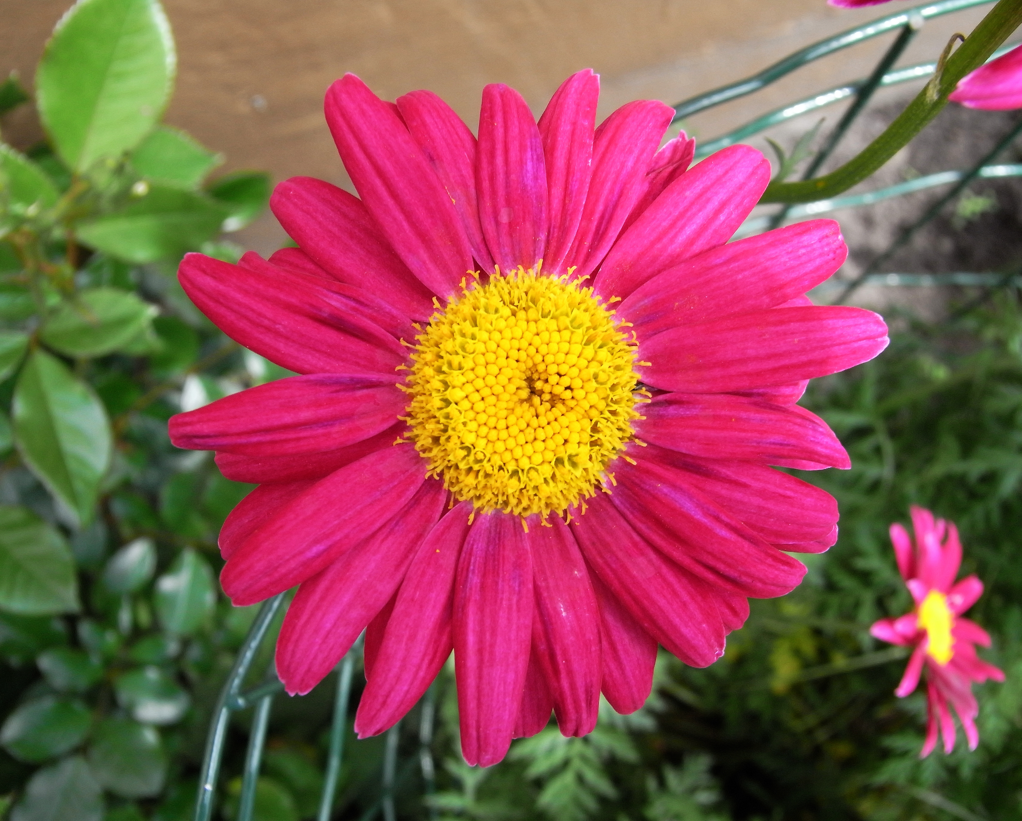 Tanacetum coccineum